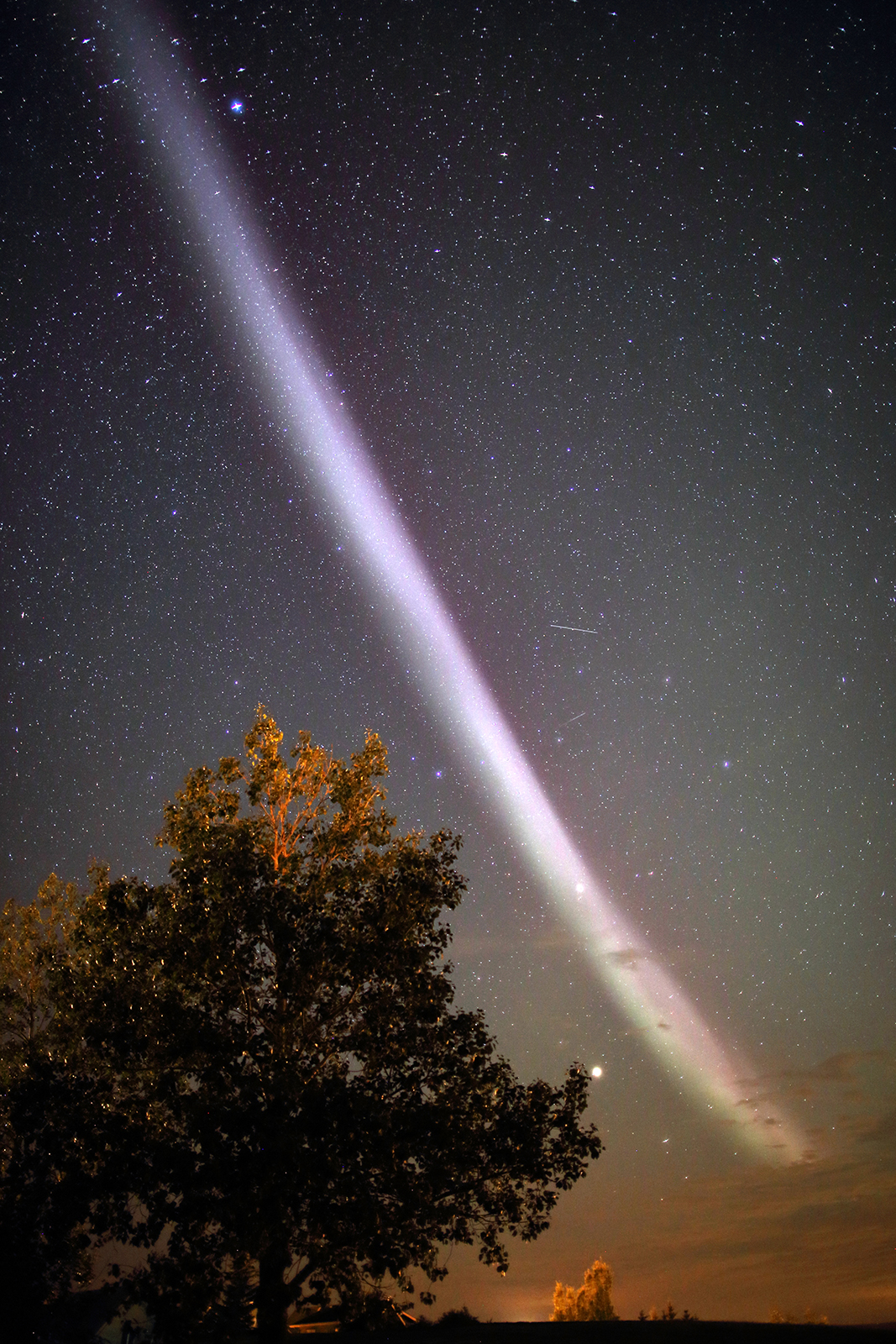 Steve is an atmospheric optical phenomenon, which appears as a light ribbon across the sky.